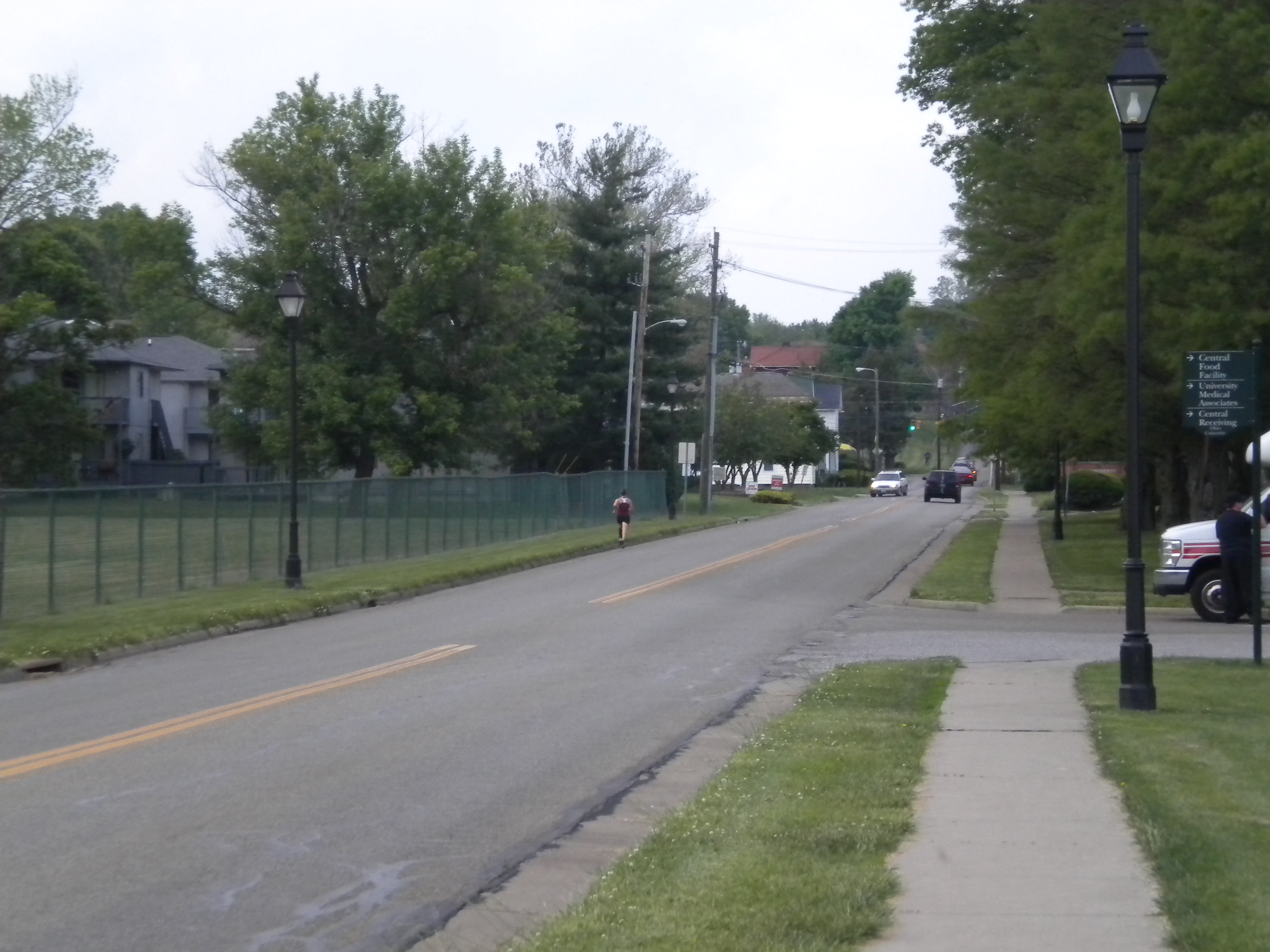 South Shafer Street, Athens, Ohio, Spring 2012